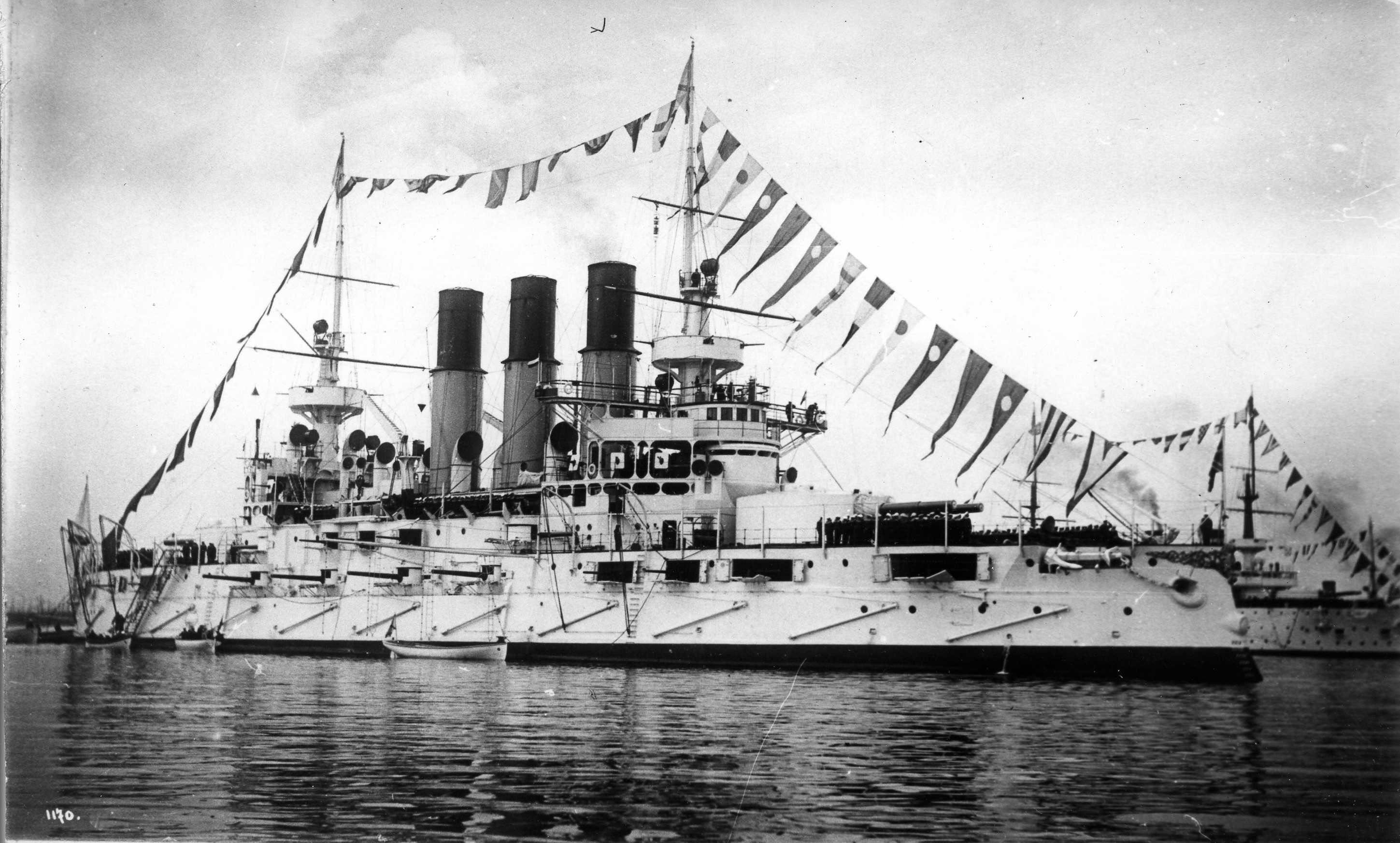 Imperial Russian battleships Retvizan and Pobeda in Reval 24 June 1902.